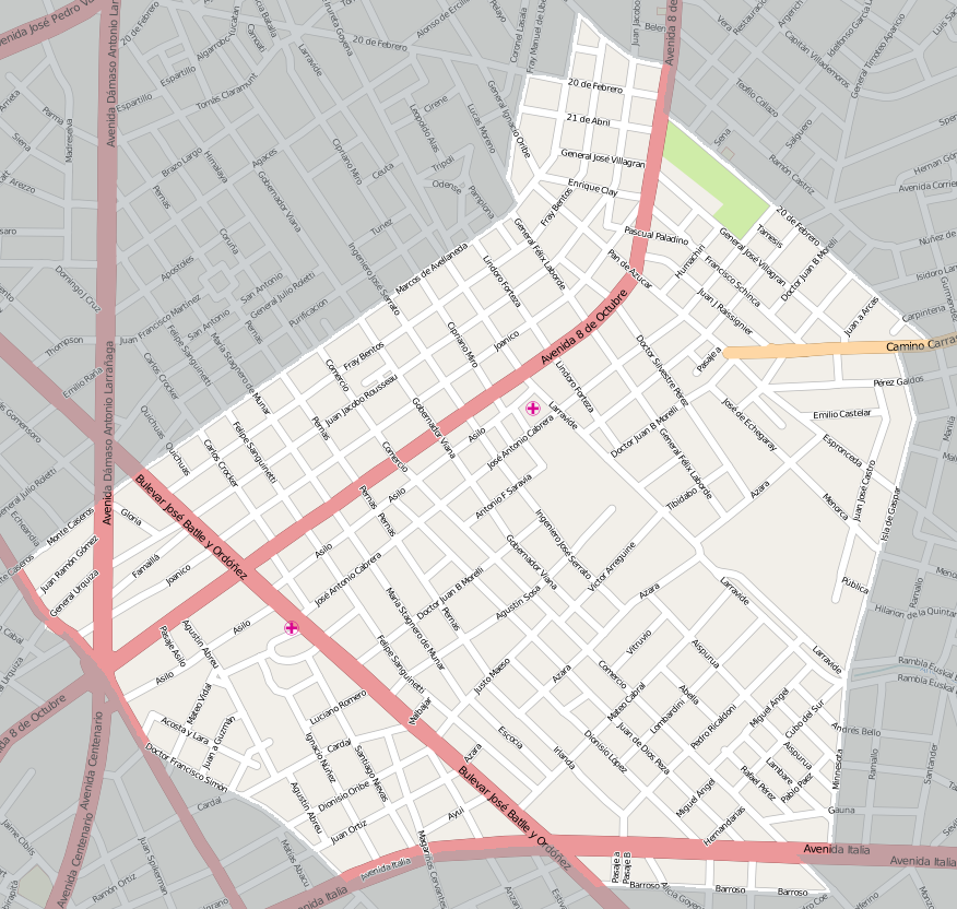 Street map of Unión, Montevideo, exported from OpenStreetMap. I added shading to delimit the barrio. This map may be incomplete, and may contain errors. Don't rely solely on it for navigation.